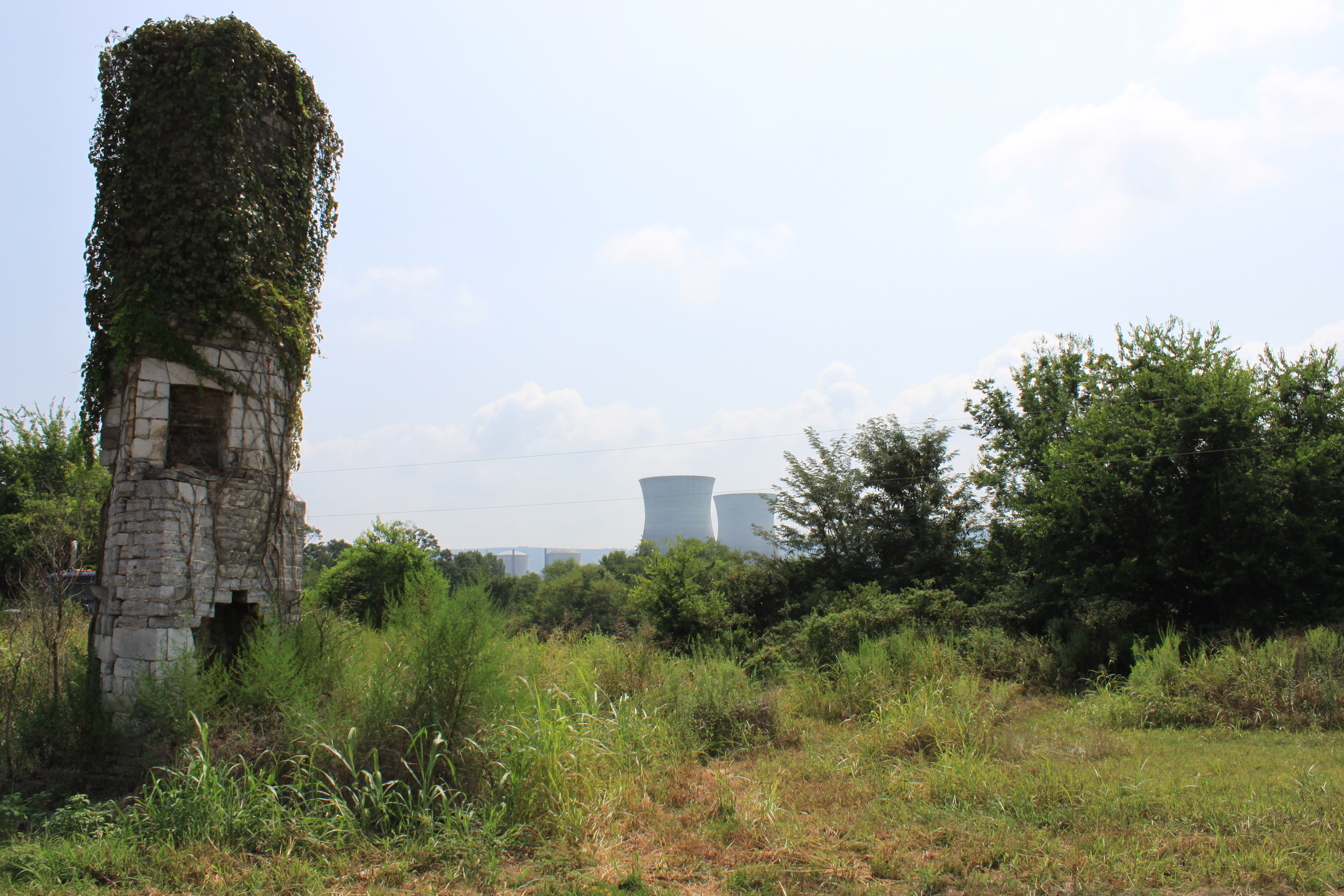 This is the only remains of the local inn in the ghost town of Bellefonte, AL. The cooling towers of the Bellefonte Nuclear Generating Station are visible in the background.